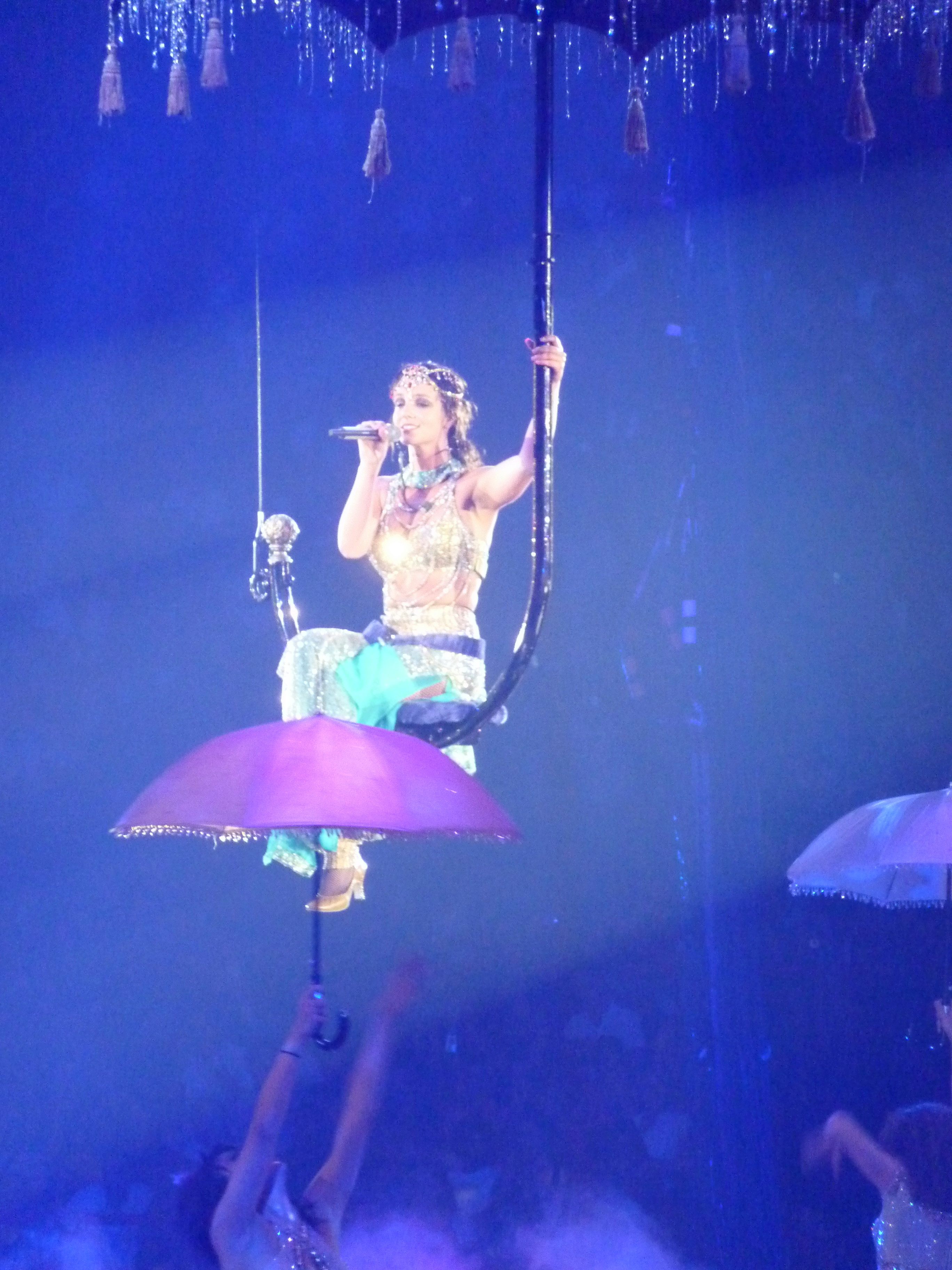 Britney Spears performing in Paris